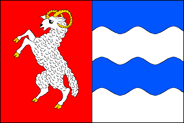 Municipal flag of Ždírec village, Plzeň-South District, Czech Republic.